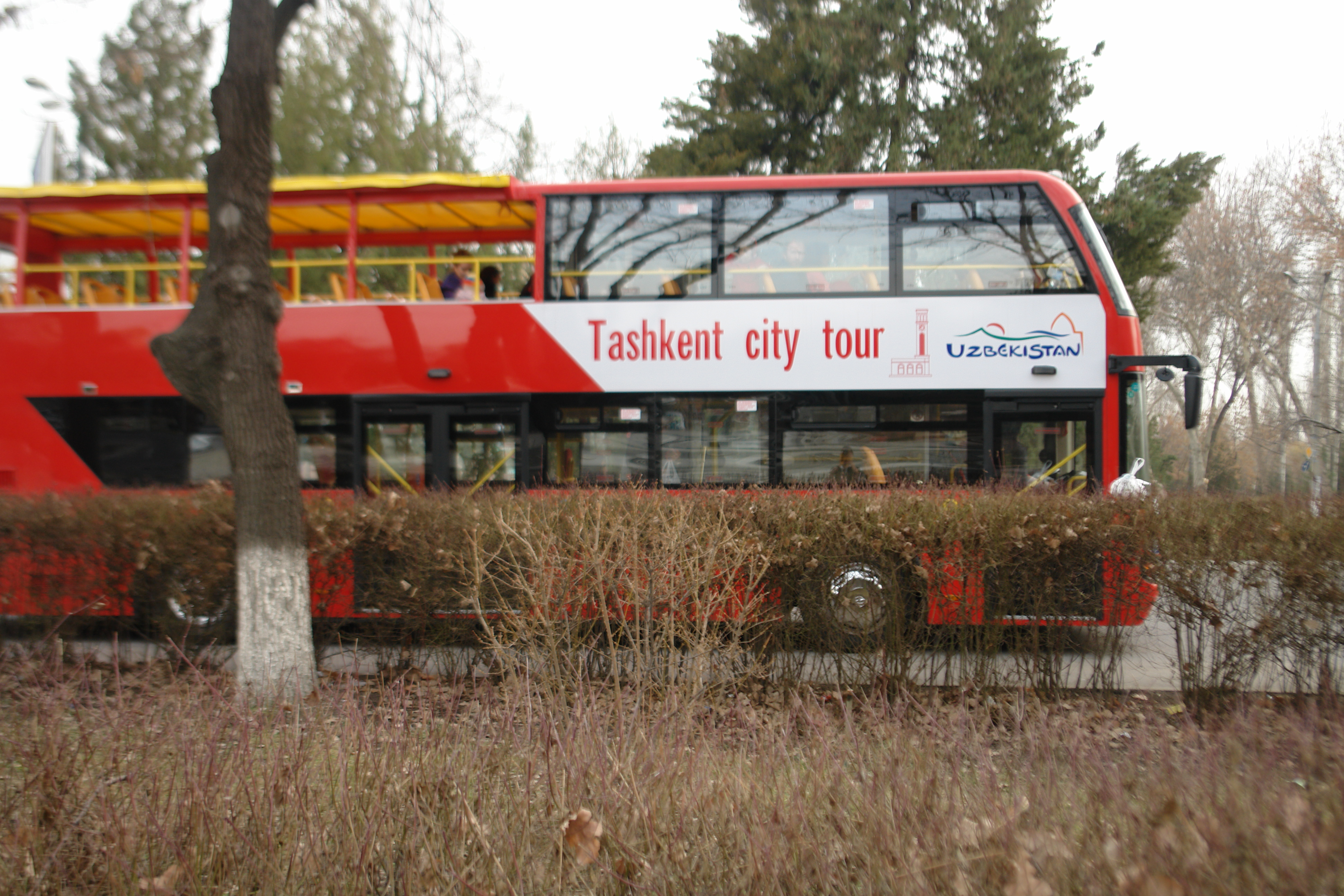 Touristic Bus in Tashkent, Uzbekistan